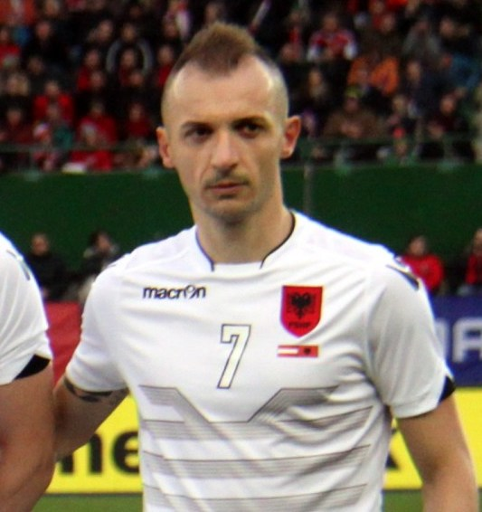 Friendly match – Austria (red shirts) vs. Albania (white shirts) 2–1 (2–0) on 2016-03-26 in Ernst-Happel-Stadion, Vienna – The photo shows the Albanian national football team (from left to right): 1st row: Elseid Hysaj (Napoli), Ergis Kaçe (PAOK Thessaloniki), Amir Abrashi (SC Freiburg), Taulant Xhaka (FC Basel), Ermir Lenjani (FC Nantes); 2nd row: Mergim Mavraj (1. FC Köln), Lorik Cana (Nantes), Bekim Balaj (Rijeka), Etrit Berisha (GK, Lazio), Andi Lila (PAS Giannina) and Ansi Agolli (Qarabağ)